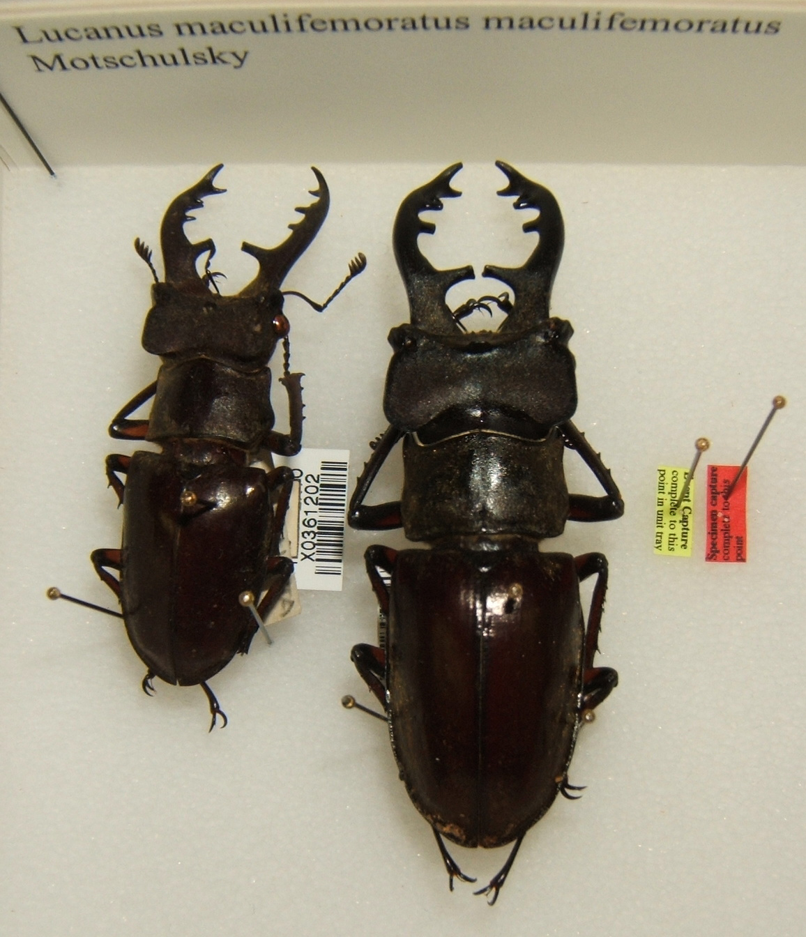 Lucanus maculifemoratus maculifemoratus adult taken by Shawn Hanrahan at the Texas A&M University Insect Collection in College Station, Texas.